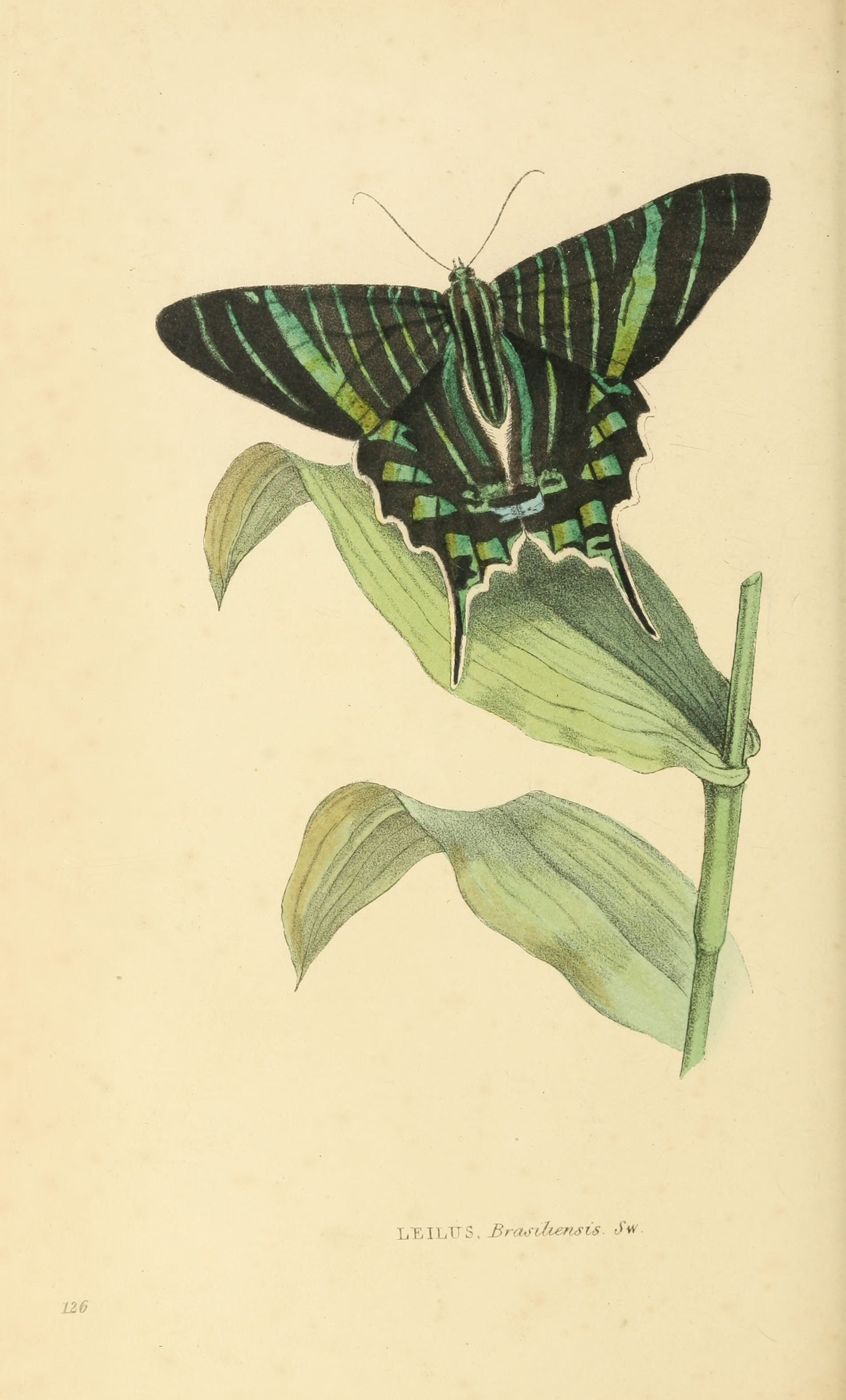 Plate from Zoological illustrations, Volume 3, 2nd series. Leilus Braziliensis (or L. Brasiliensis). Accepted as Urania brasiliensis[1]